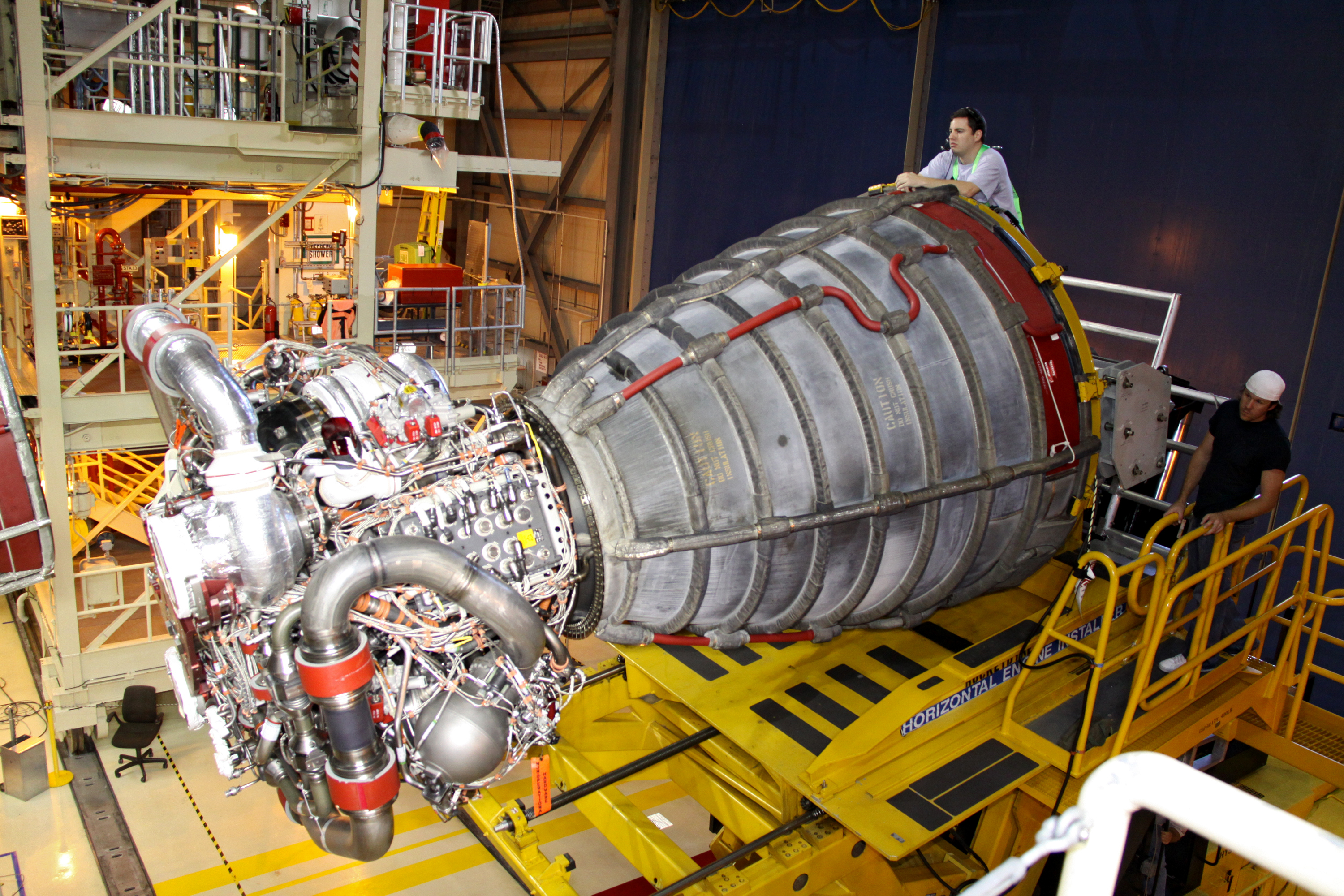 In Orbiter Processing Facility Bay 3 at NASA's Kennedy Space Center in Florida, United Space Alliance workers visually check the alignment of a space shuttle main engine approaching shuttle Discovery for the shuttle's STS-131 mission to the International Space Station. The seven-member STS-131 crew will deliver a Multi-Purpose Logistics Module filled with resupply stowage platforms and racks to be transferred to locations around the station. Three spacewalks will include work to attach a spare ammonia tank assembly to the station's exterior and return a European experiment from outside the station's Columbus module. Discovery's launch, targeted for March 18, 2010, will initiate the 33rd shuttle mission to the station.